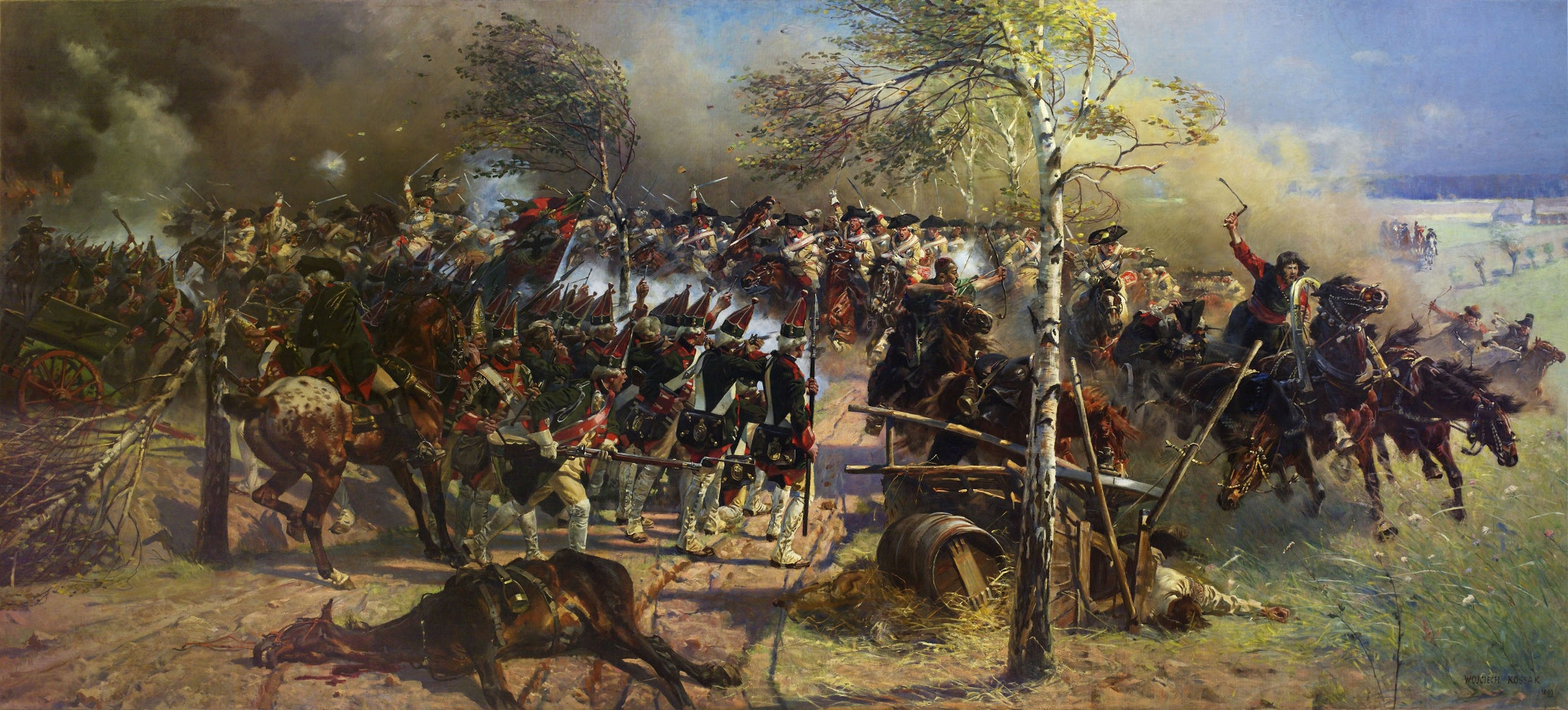 Wojciech Kossak The Battle of Zorndorf (1758) 1899 Charge of the Prussian Cuirassiers led by Seydlitz at the Battle of Zorndorf 25th August 1758